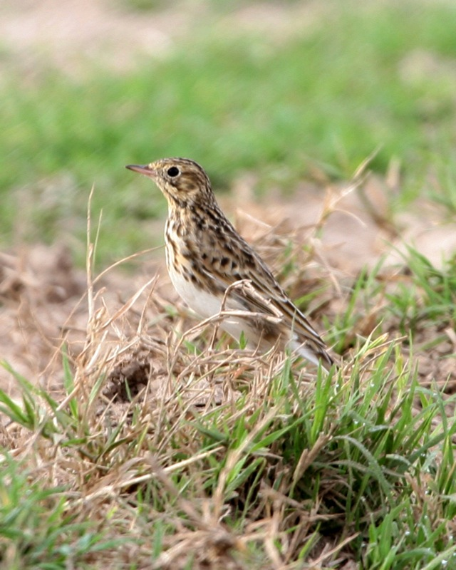 Short-billed Pipit Anthus furcatus. Entre Rios, Argentina, 8 April 2006.